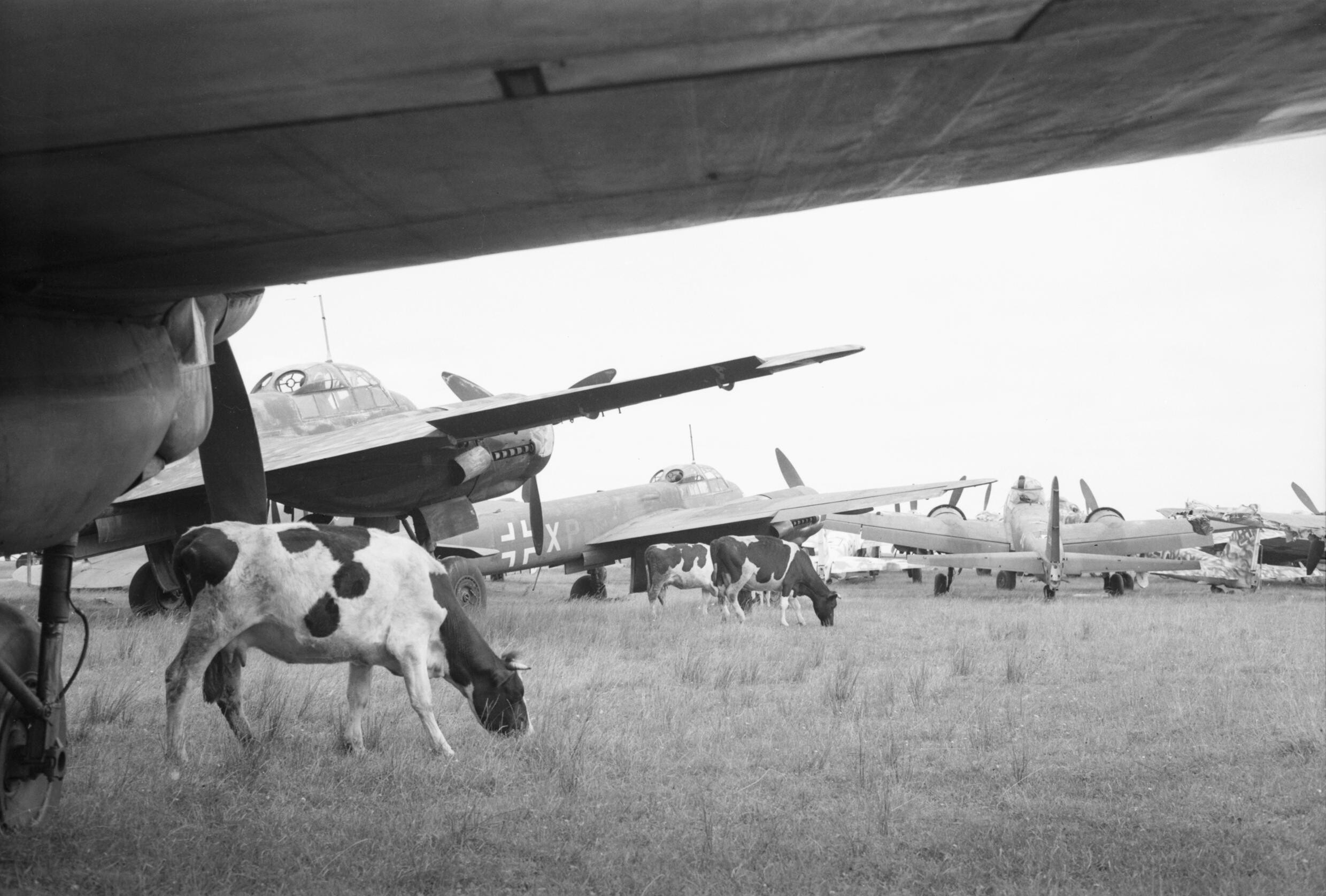 Cattle grazing amongst Junkers Ju 88 bombers awaiting disposal at Flensburg airfield in Germany, 2 August 1945 Cattle grazing amongst Junkers Ju.88 aircraft at Flensburg airfield where the machines await disposal.